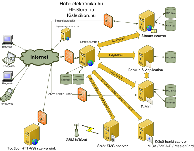 Server park structure